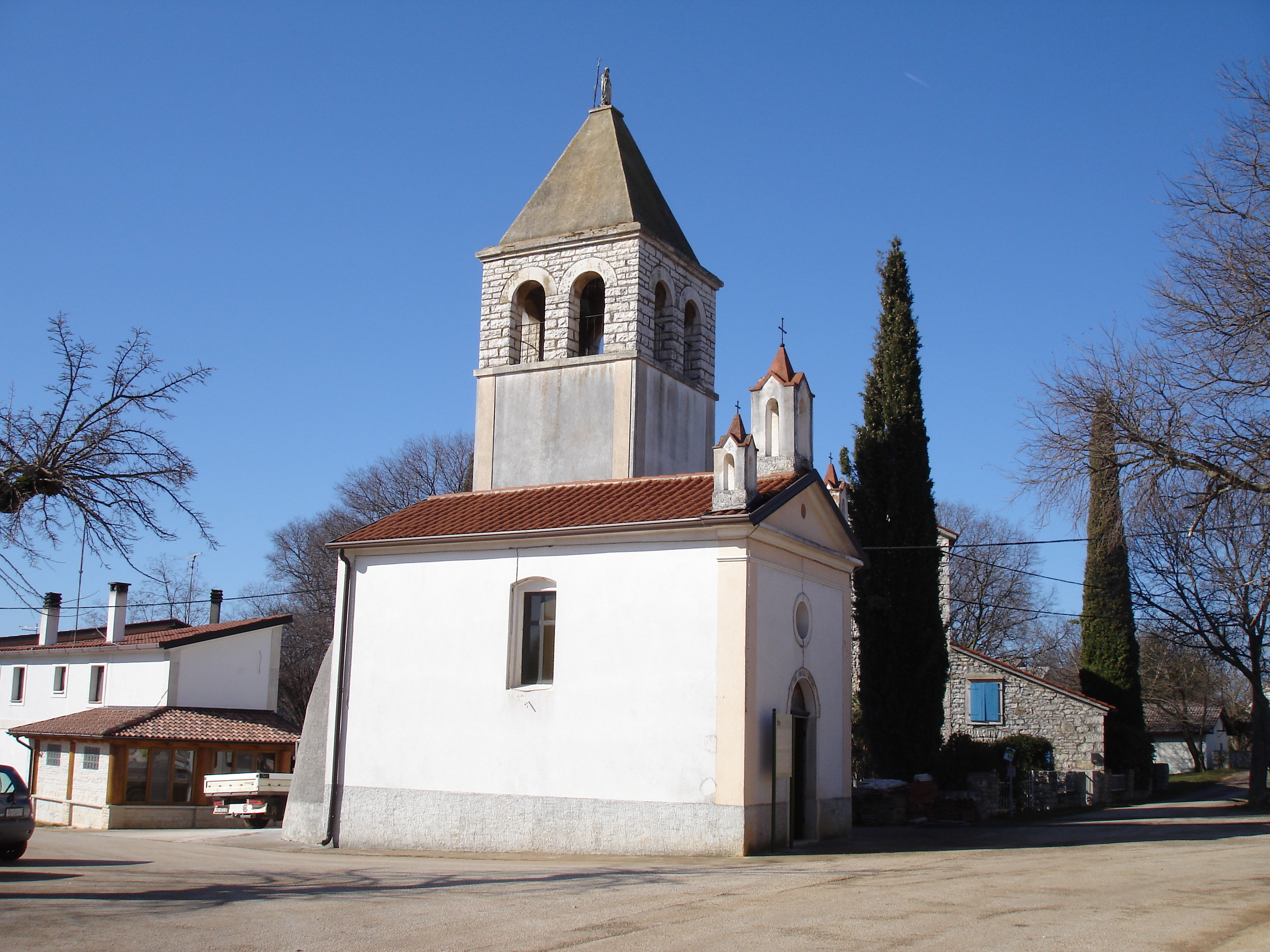 Church of Our Lady of Lourdes, Radini, whole view.